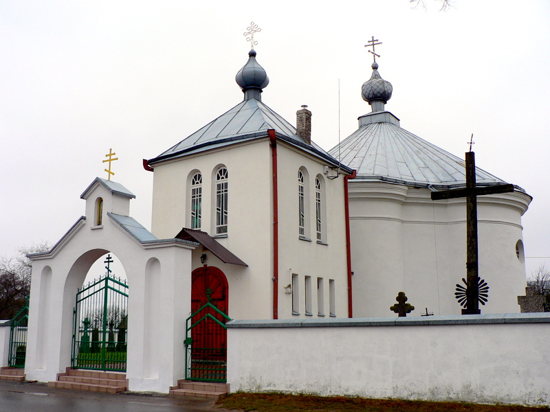 St. George Orthodox church (17th century) in Siemianówka, Poland